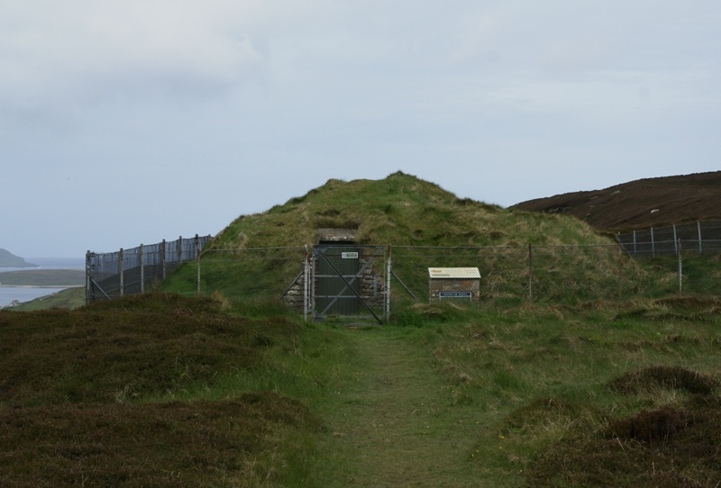 Knowe of Yarso Chambered Cairn, Rousay, Orkney, Scotland